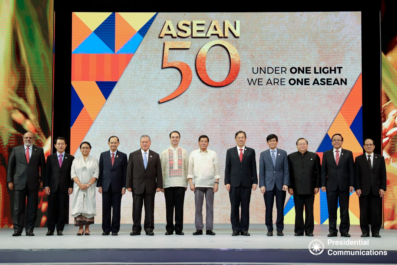 President Rodrigo Roa Duterte poses for a photo with the foreign ministers from participating countries in the Association of Southeast Asian Nations (ASEAN) Foreign Ministers Meeting during its closing ceremony at the Philippine International Convention Center in Pasay City, Metro Manila on August 8, 2017.